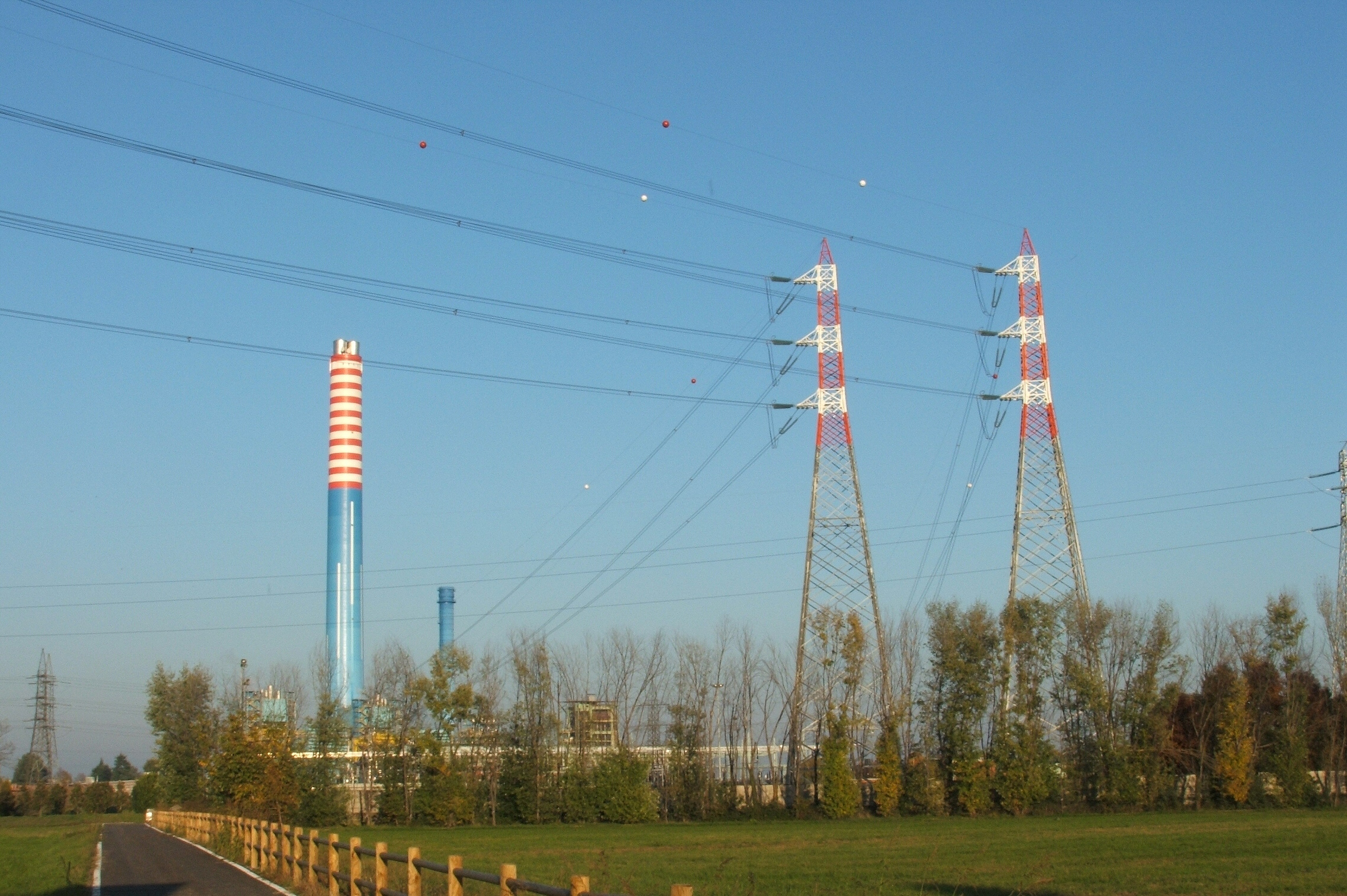 Cassano d'Adda, Milan, Lombardy, Italy - Power plant